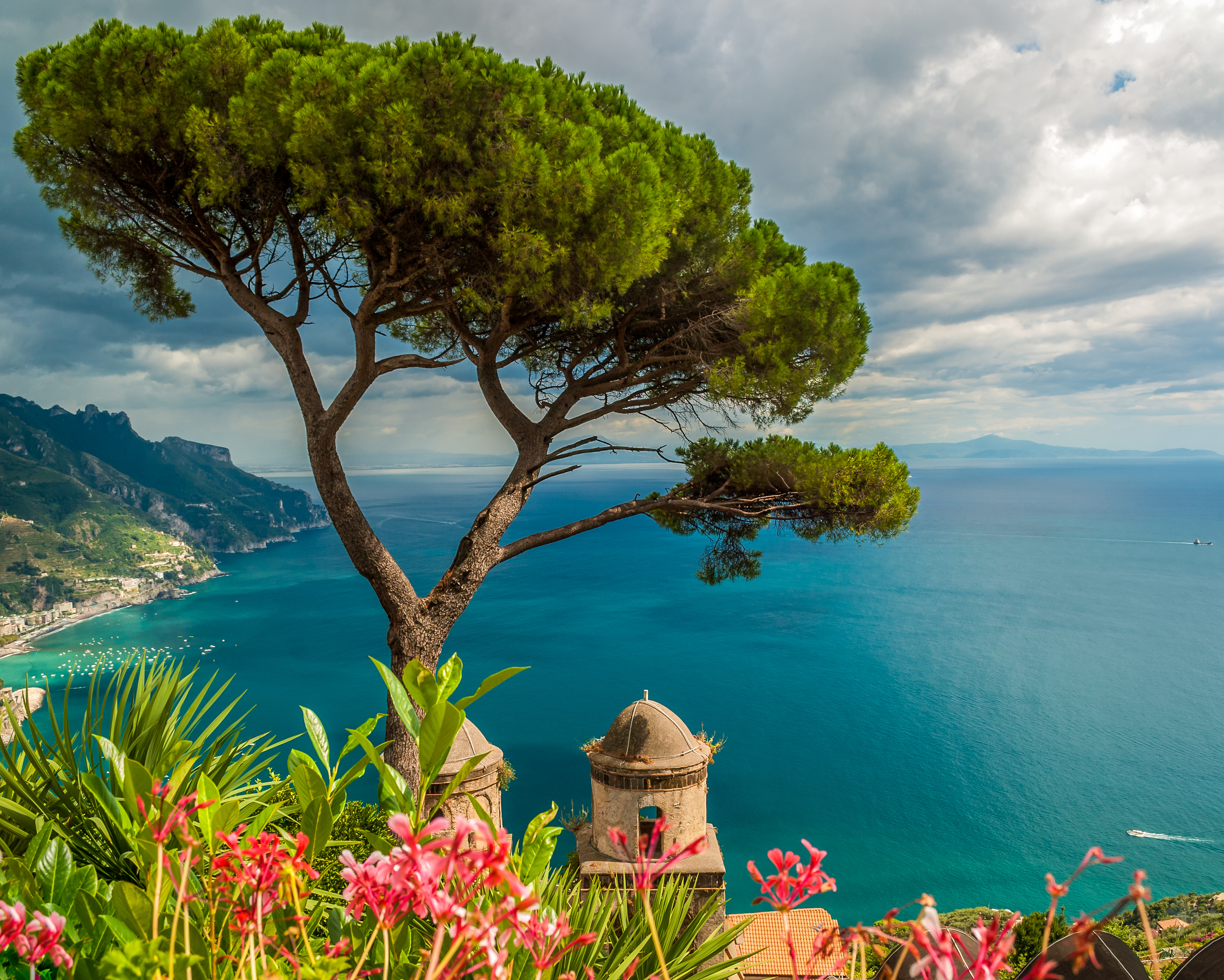 Villa Rufolo in Ravello on Amalfi Coast